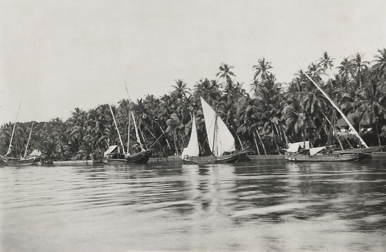 Fishing boats on the Mahé River near Mahé, then part of French India.